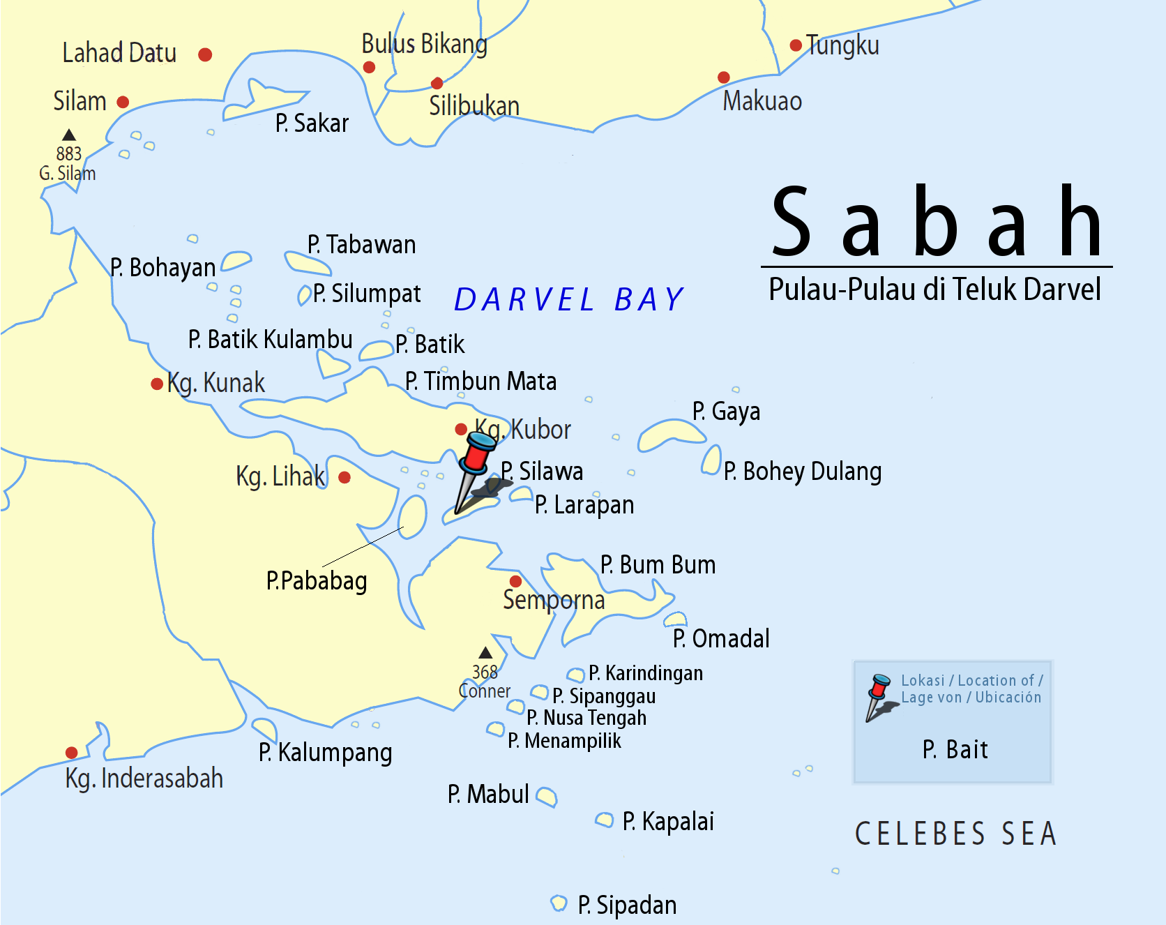 Sabah: Scheme of Islands in the Darvel Bay with Pushpin Marker for Pulau Bait)